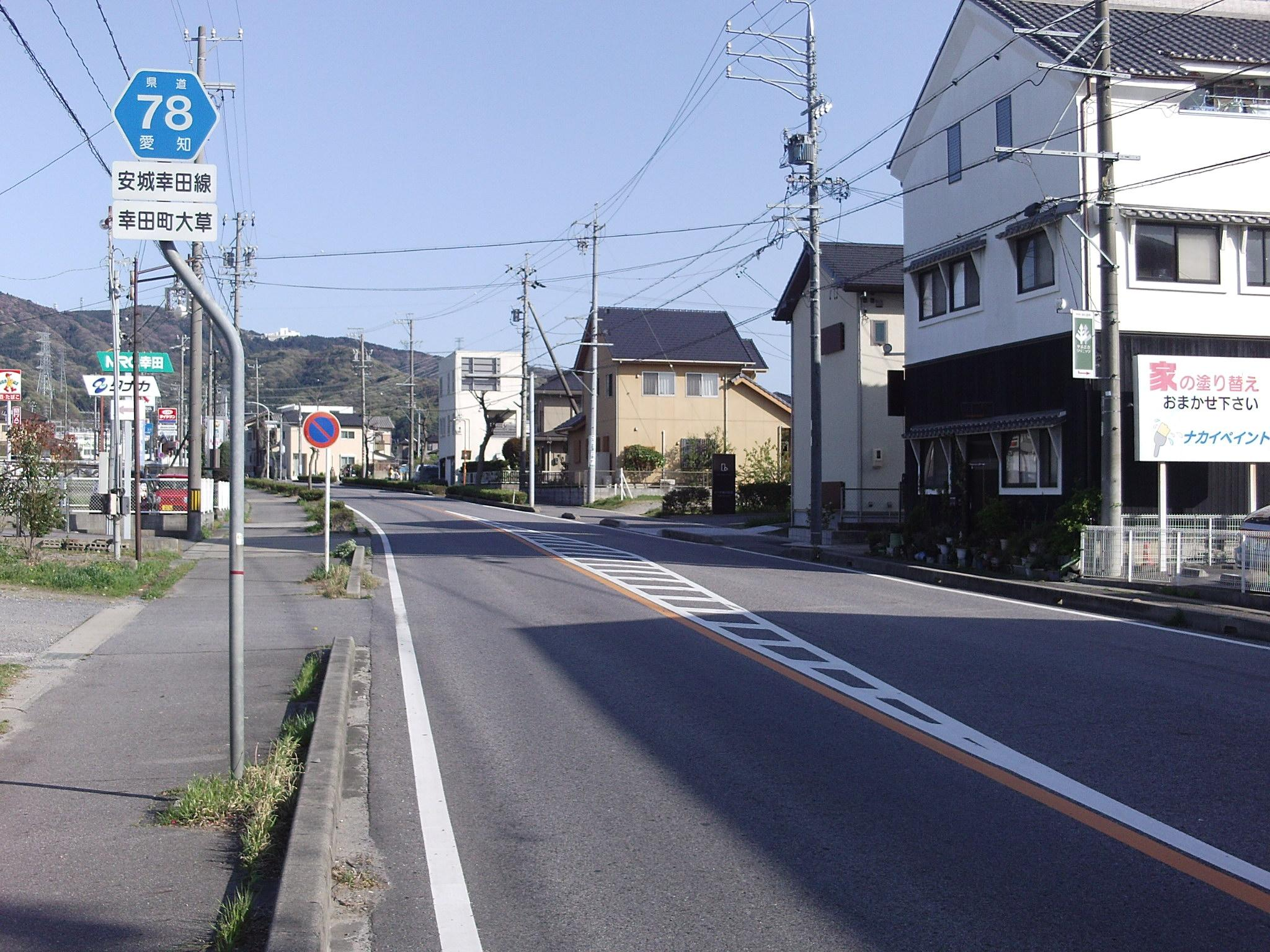 Aichi prefectural road No.78 in Okusa, Kota-cho, Nukata-gun Aichi.